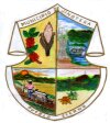 Seal of Jinotega, Nicaragua